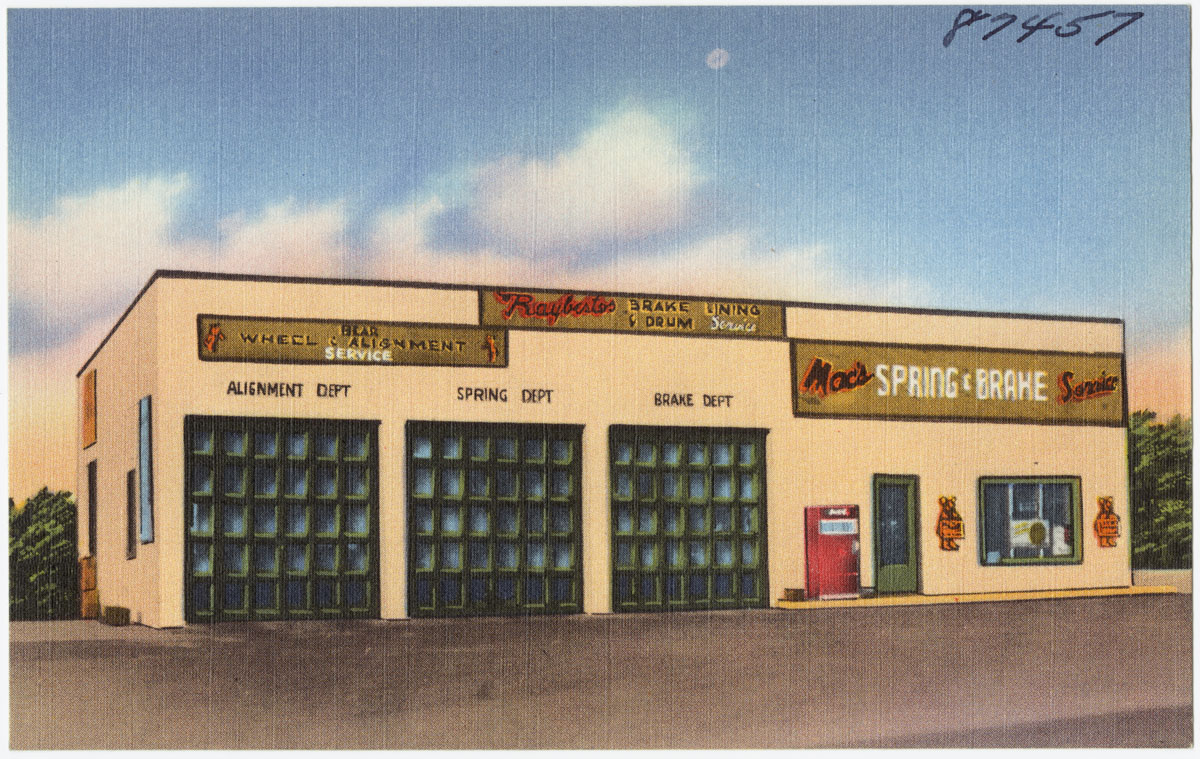 File name: 06_10_001654 Title: Mac's Spring & Brake Service. Raybestos Brake Service. Bear Wheel Alignment Created/Published: Pub. by Artcraft Calendar Co., Philadelphia, Pa. Tichnor Bros. Inc., Boston, Mass. Date issued: 1930 - 1945 (approximate) Physical description: 1 print (postcard) : linen texture, color ; 3 1/2 x 5 1/2 in. Genre: Postcards Subjects: Automobile service stations Notes: Title from item. Collection: The Tichnor Brothers Collection Location: Boston Public Library, Print Department Rights: No known restrictions